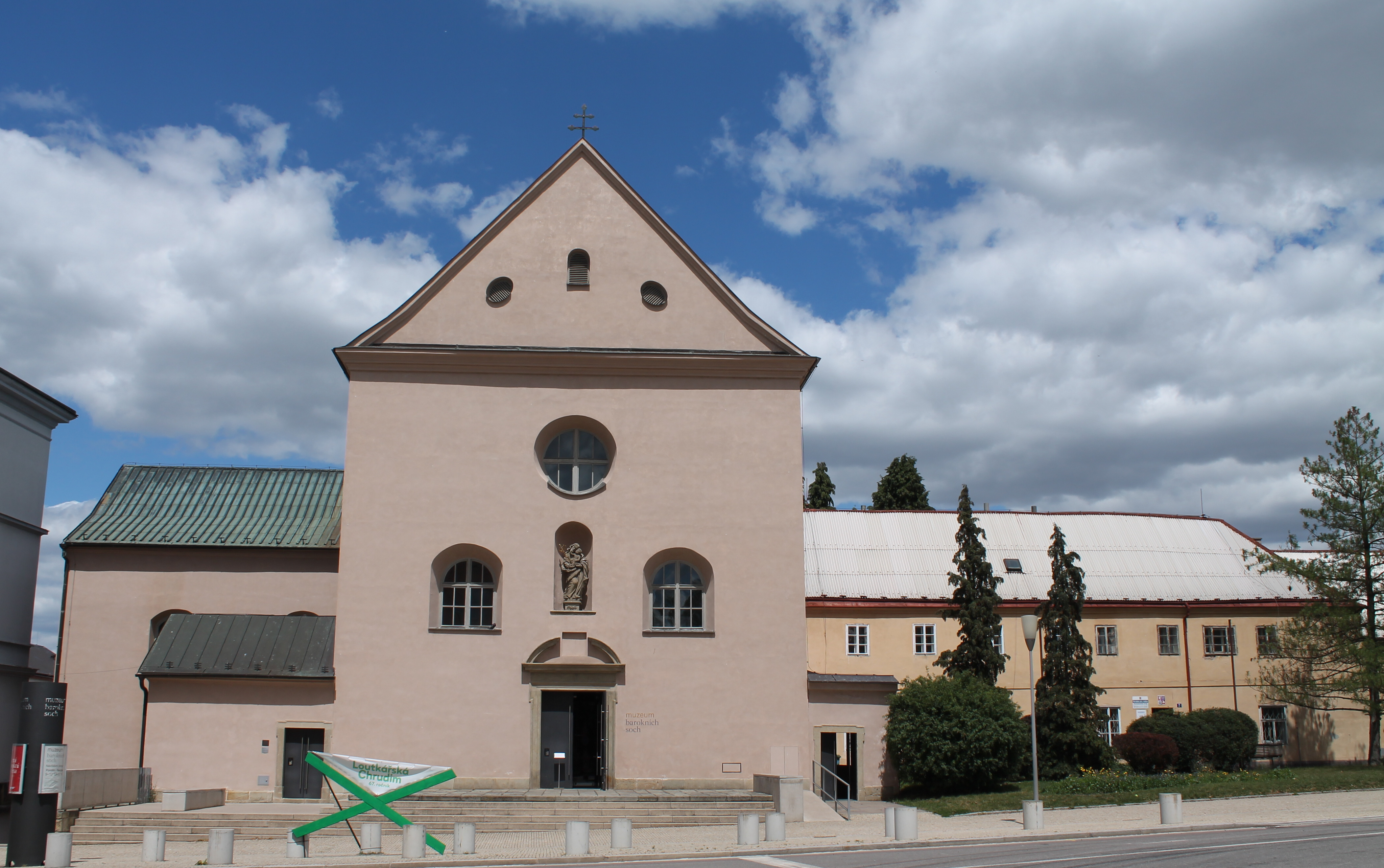 Capuchin monastery with church of Saint Joseph, Chrudim, Chrudim District, Czech Republic